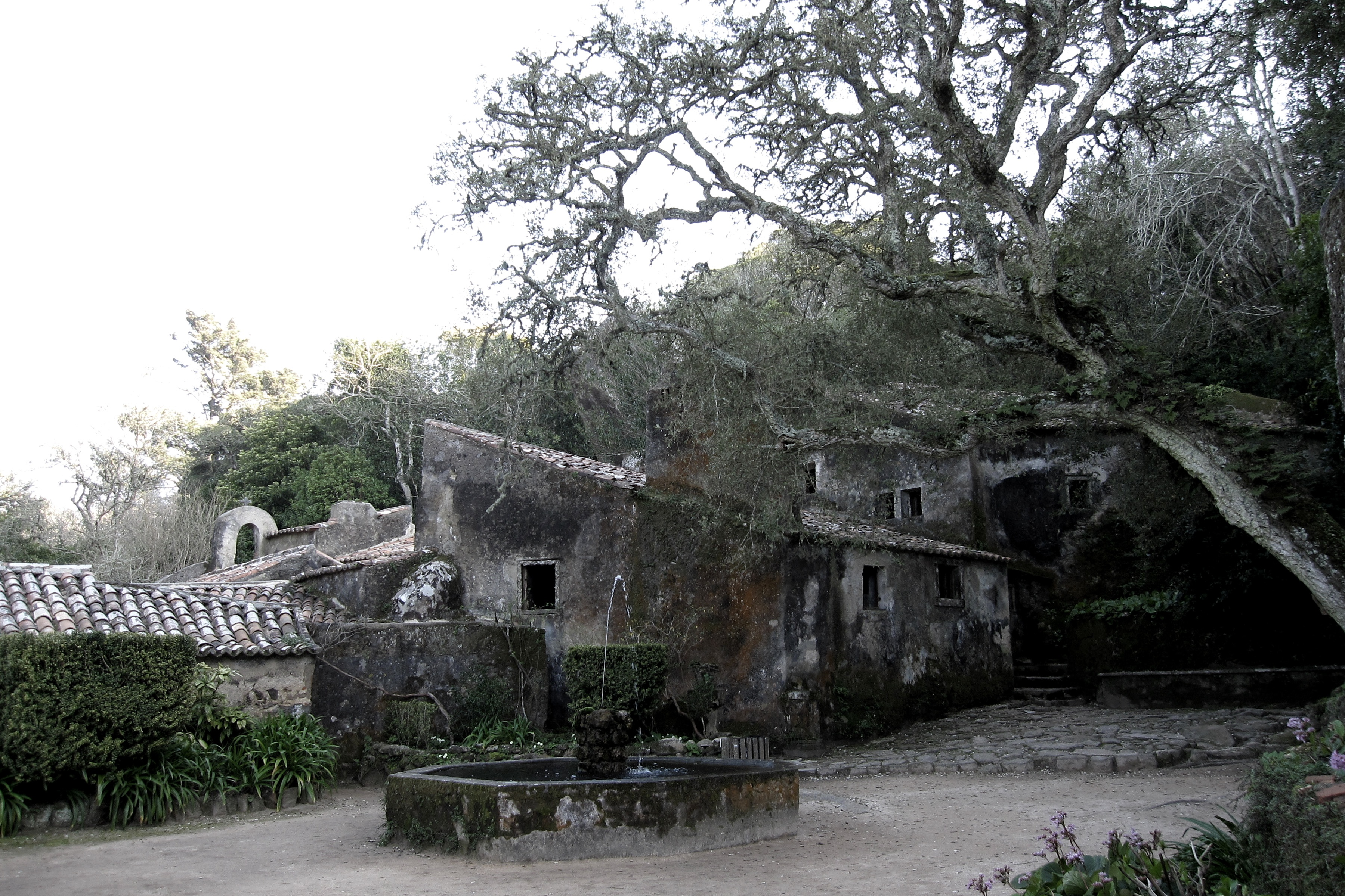 This file was uploaded for Wiki Loves Monuments in Portugal with the unique identifier 72838.